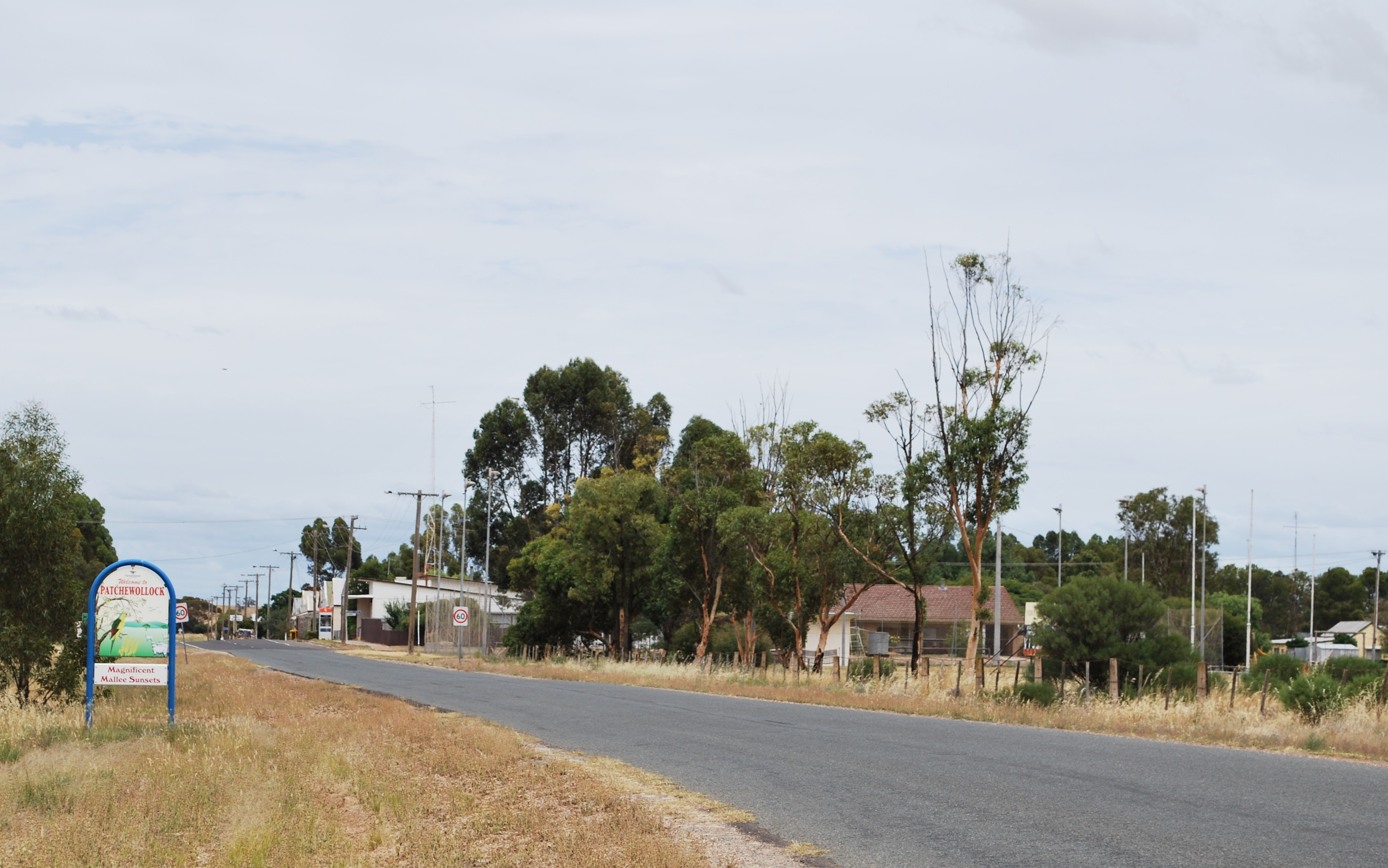 Town entry sign at Patchewollock, Victoria